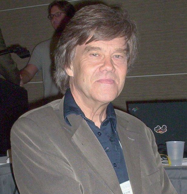 Victor Snieckus at the 2007 Boston ACS meeting Cropped and reduced contrast - original too harsh